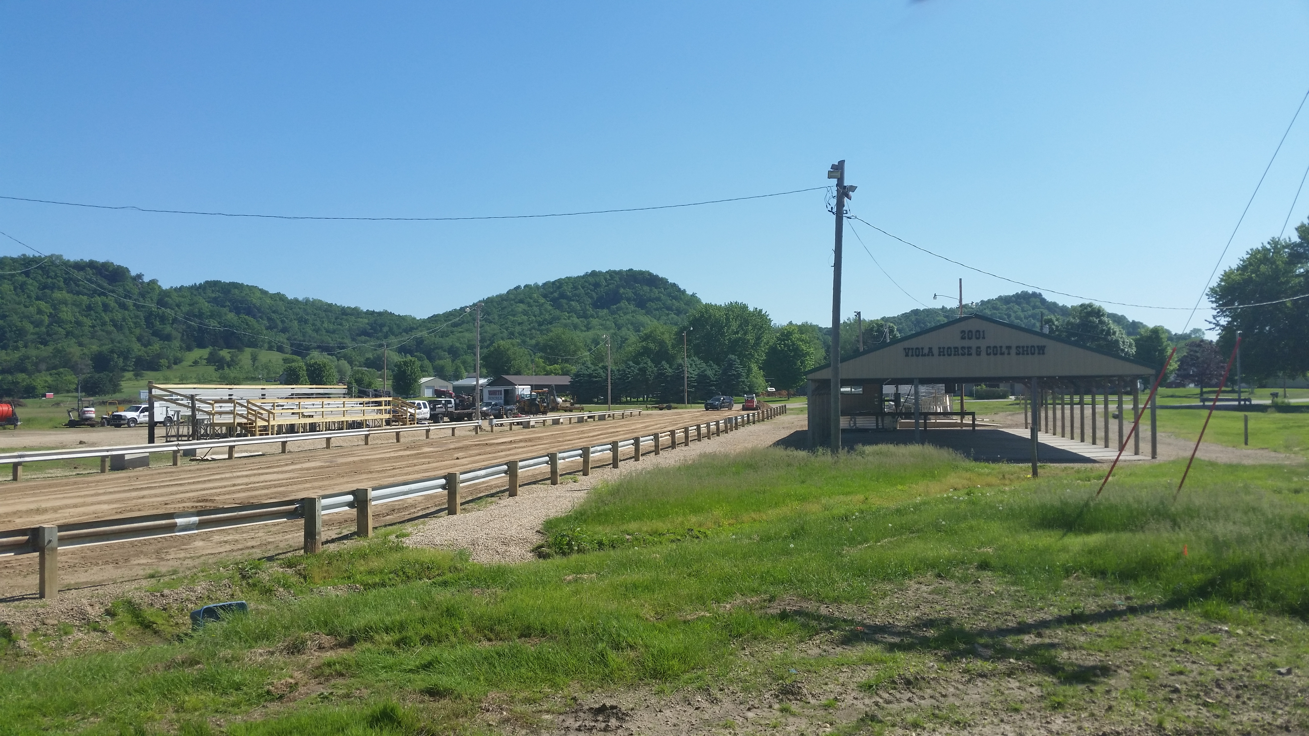 This track is used for truck and tractor pulls during the Viola Horse & Colt Show each September. The coordinates where this photo was taken on June 7, 2019 were: 43.506805, -90.673500